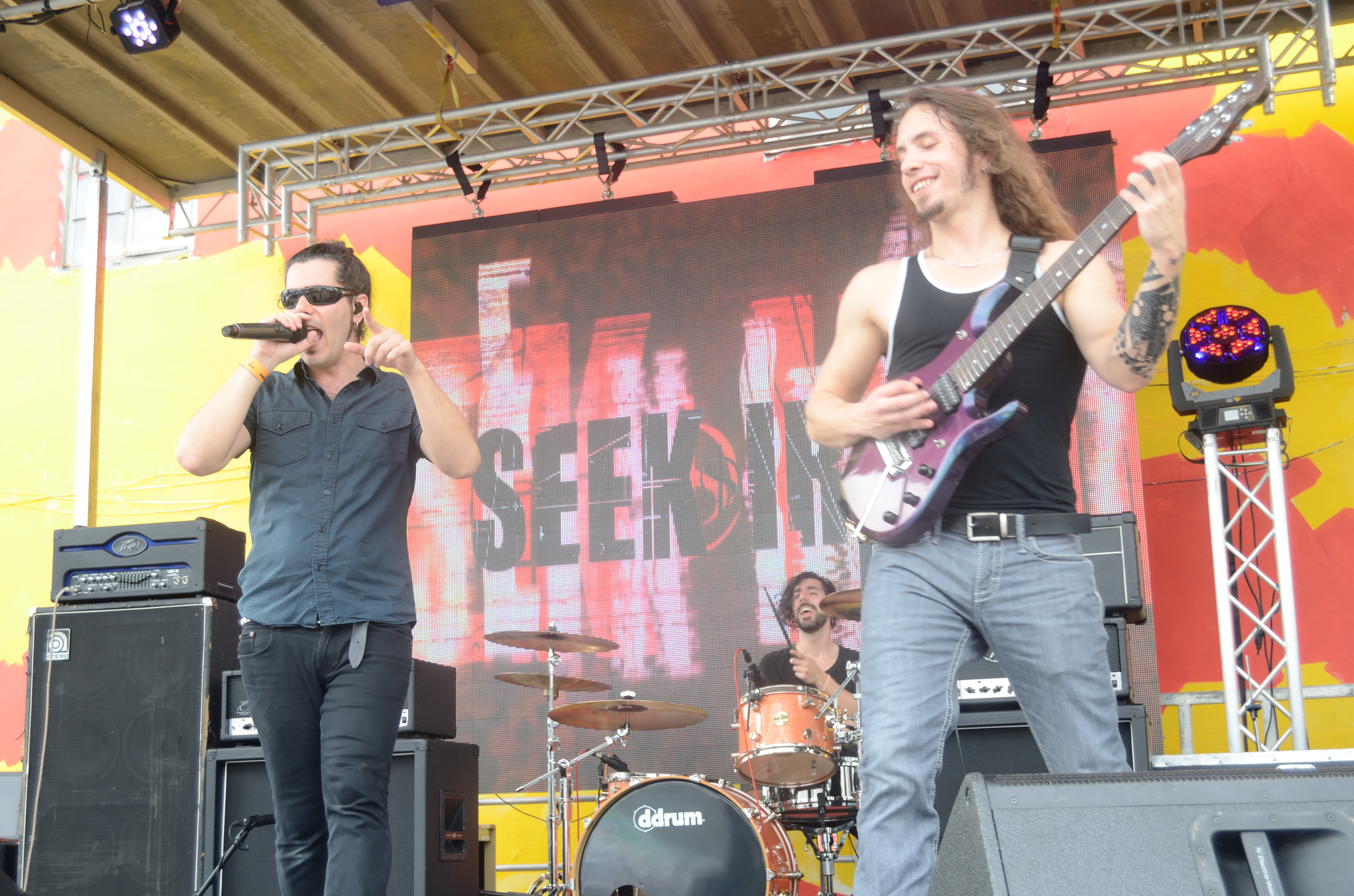 Seek Irony at Texas Rockfest Lagunitas Stage, March 2016